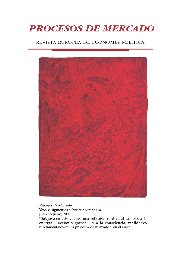 Journal of Market Process. Capture of image (by myself) of the cover with permission of the founder and director of the journal, Jesús Huerta de Soto.